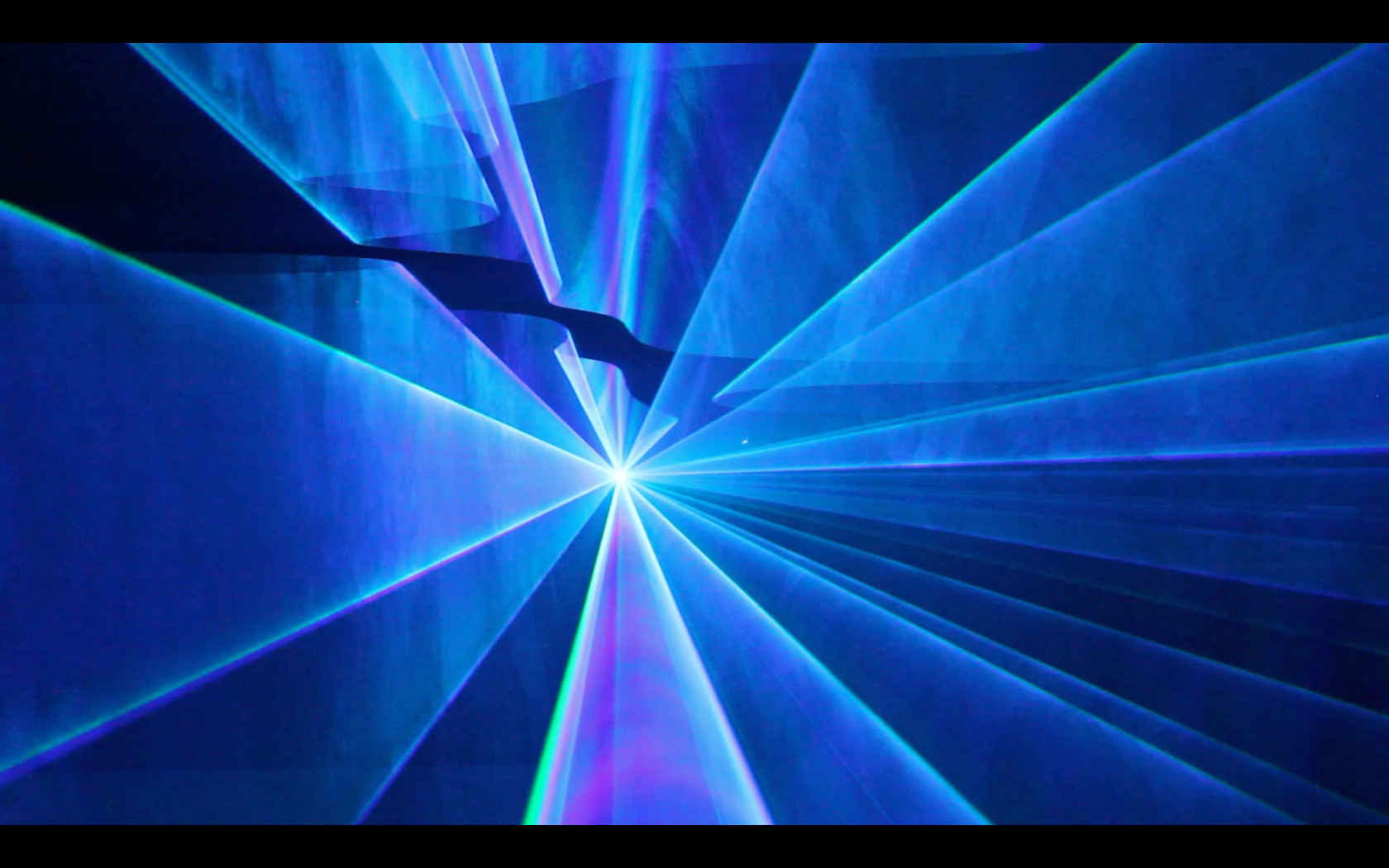 Edwin van der Heide laser show